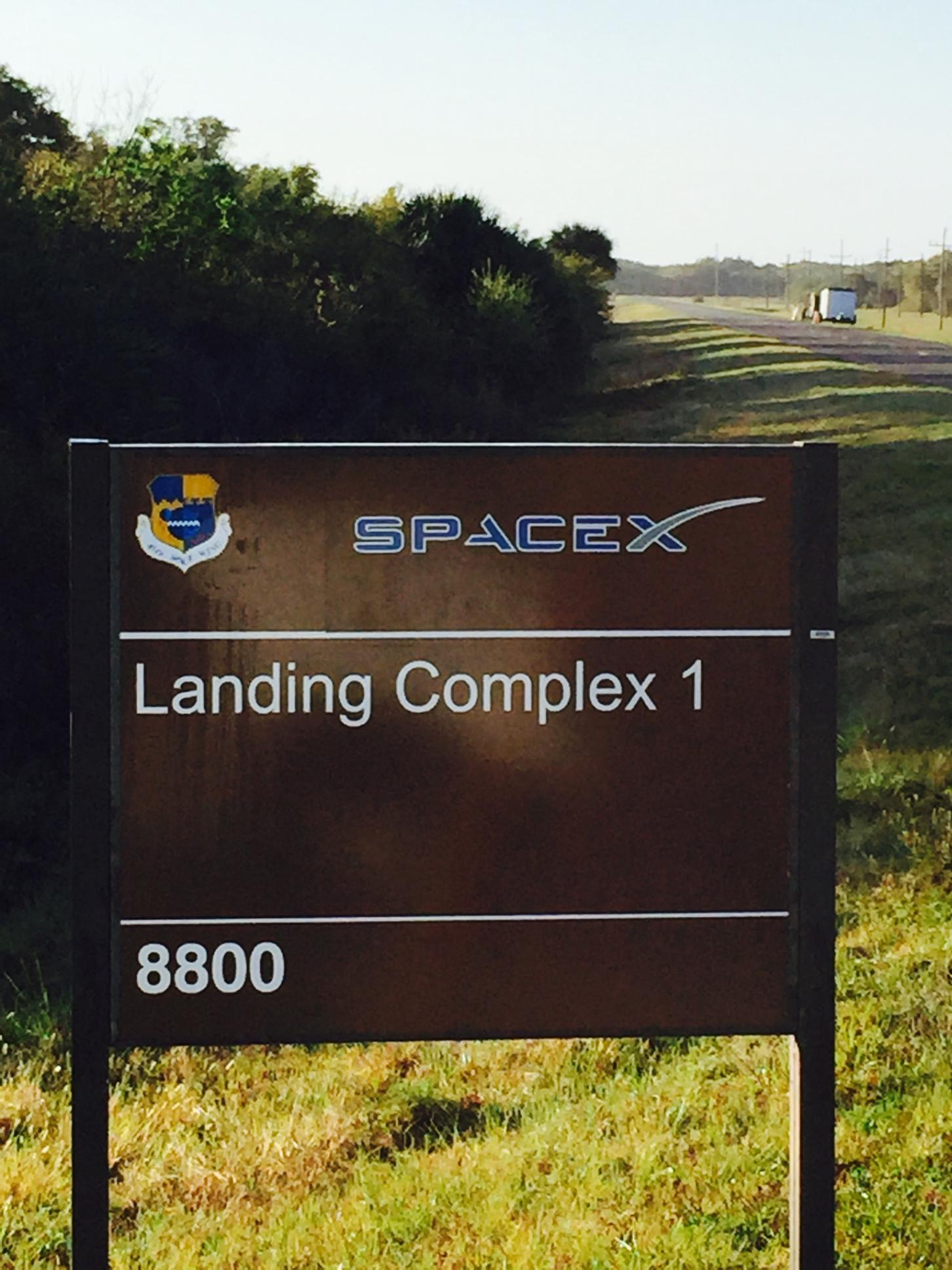 Landing Complex 1 at Cape Canaveral in Florida, formerly Launch Complex 13. Sign was present only in part of 2015, circa March to December, before the site was formally named Landing Zone 1 in December 2015.